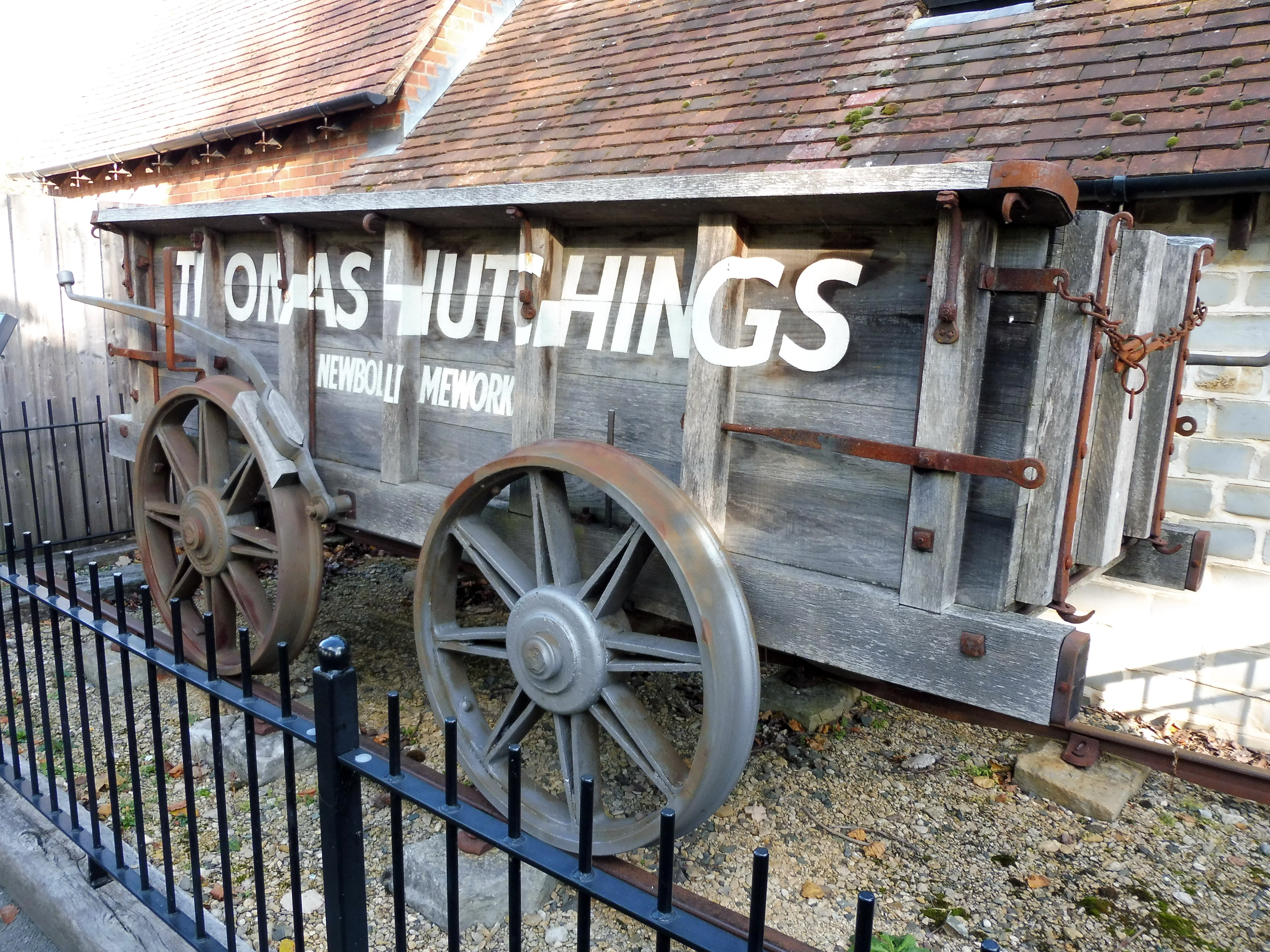 drawn by horses, on fishbelly rails